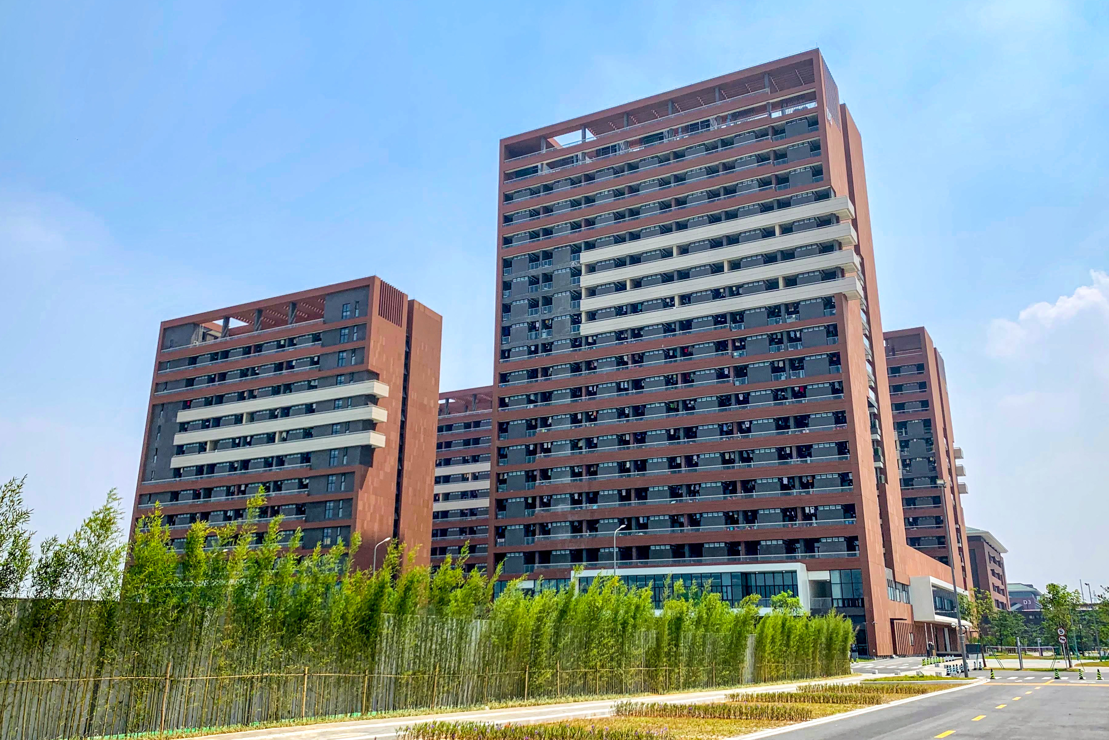 Northern part of Zone D5 of South China University of Technology (SCUT) Guangzhou International Campus (GZIC). The building from left to right are D5-g and D5-h.